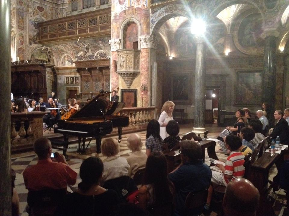 MusicFest Perugia 2014